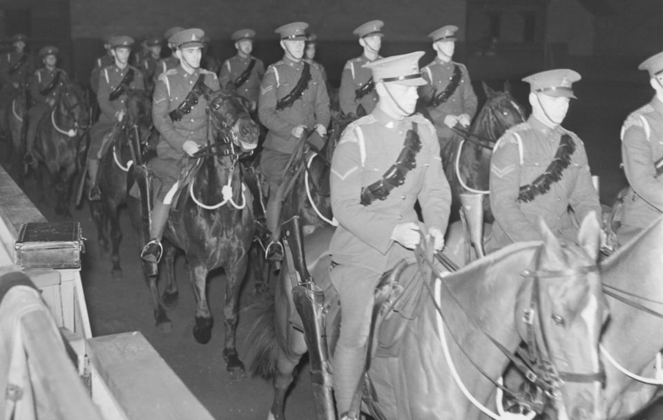 Riders of the "17th Hussars" Regiment marching in a barracks in Montreal.